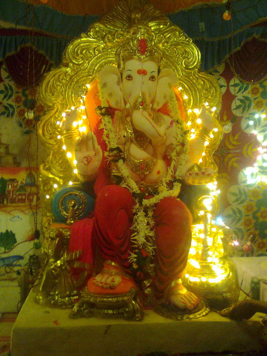 Ganeshji 2010